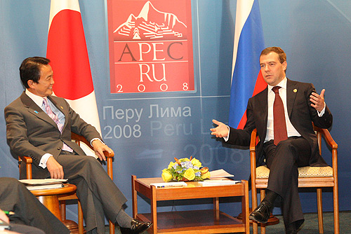 PERU, LIMA. With Japanese Prime Minister Taro Aso.